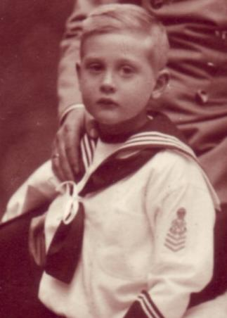 Prinz Maximilian von Baden and Princess Marie Louise with children